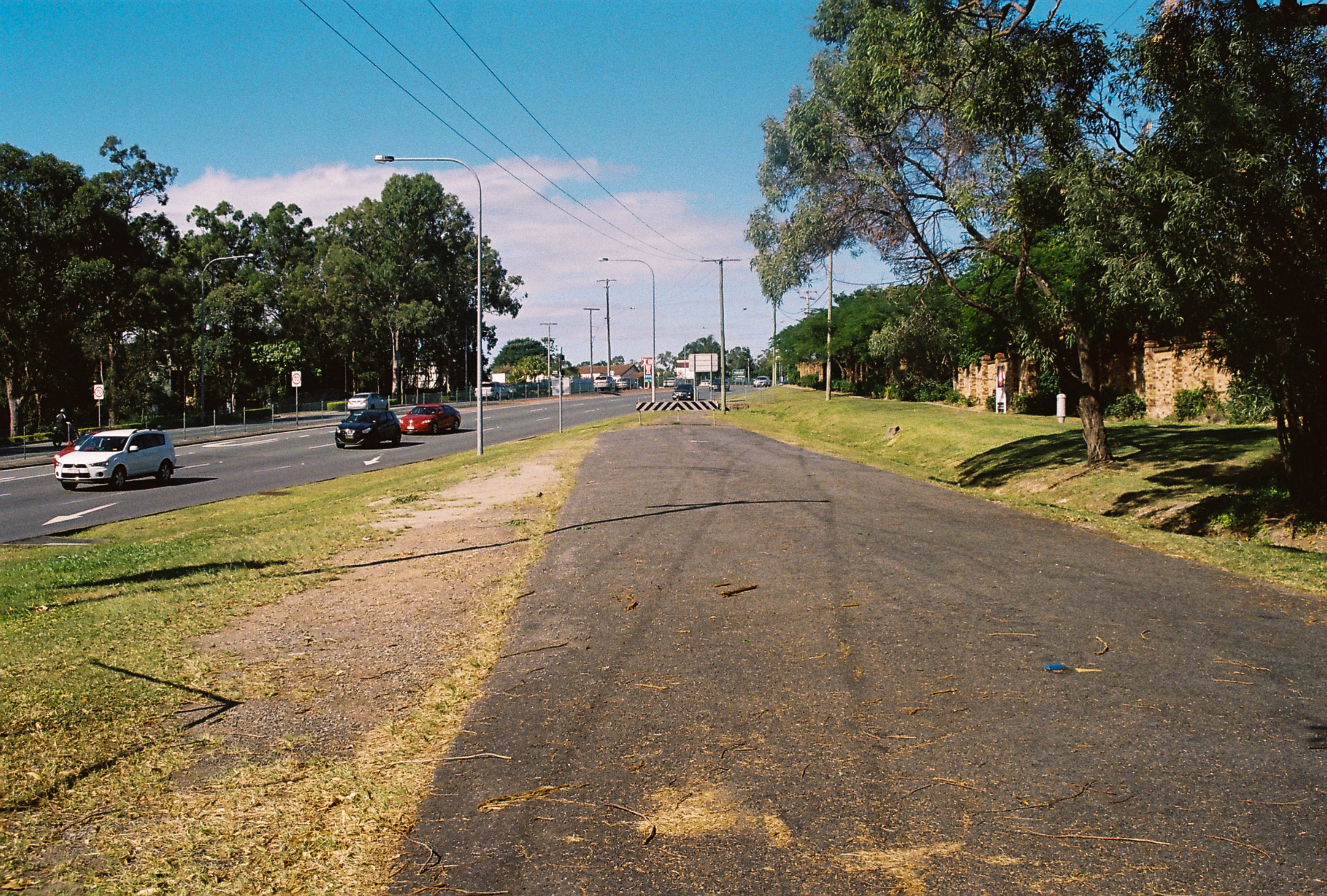 Looking south from former northbound lanes pre 1984. Cosina C1 Film Camera